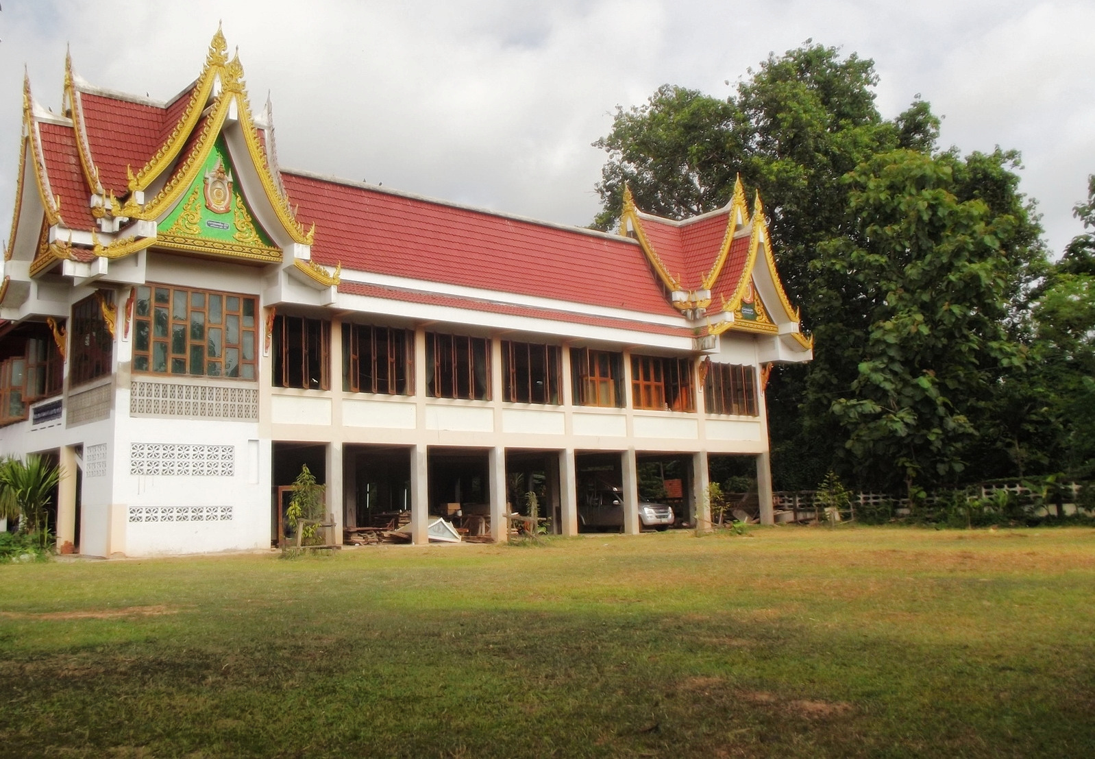 Wat Kungtapao Local Museum. at Wat Khung Taphao, Ban Khung Taphao, Khung Taphao subdistrict, Mueang Uttaradit, Uttaradit Province, Thailand.) on December 2, 2012.